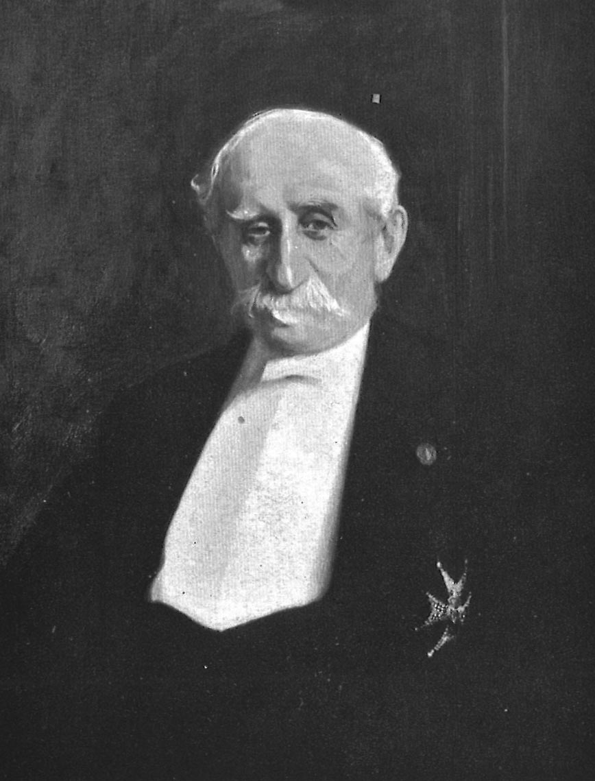 Edvard Fränckel (1836-1912), Swedish industrialist and member of parliament. Painting by Oscar Björck 1